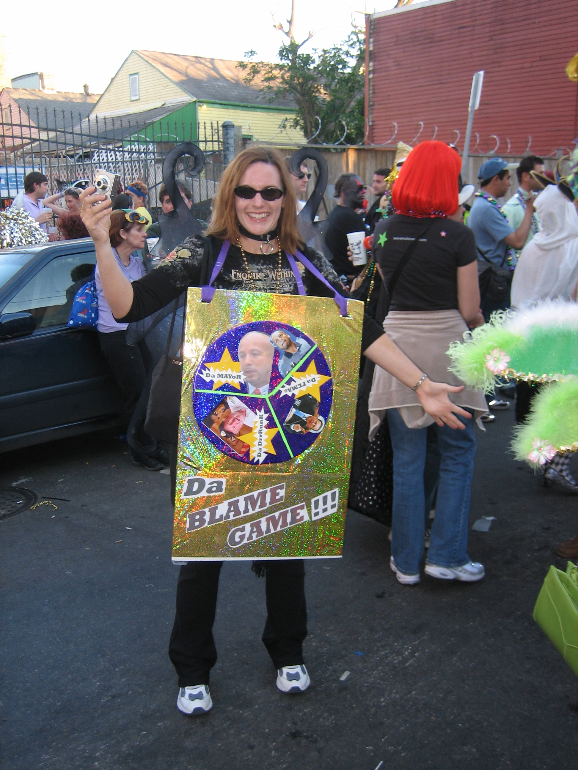 New Orleans, Mardi Gras Day, 2006. Reveler on Frenchmen Street, Faubourg Marigny neighborhood with costume sandwich board satirizing may Ray Nagin, FEMA chief Michael D. Brown, and Jefferson Parish President Aaron Broussard. I think this was part of a Krewe du Vieux costume.